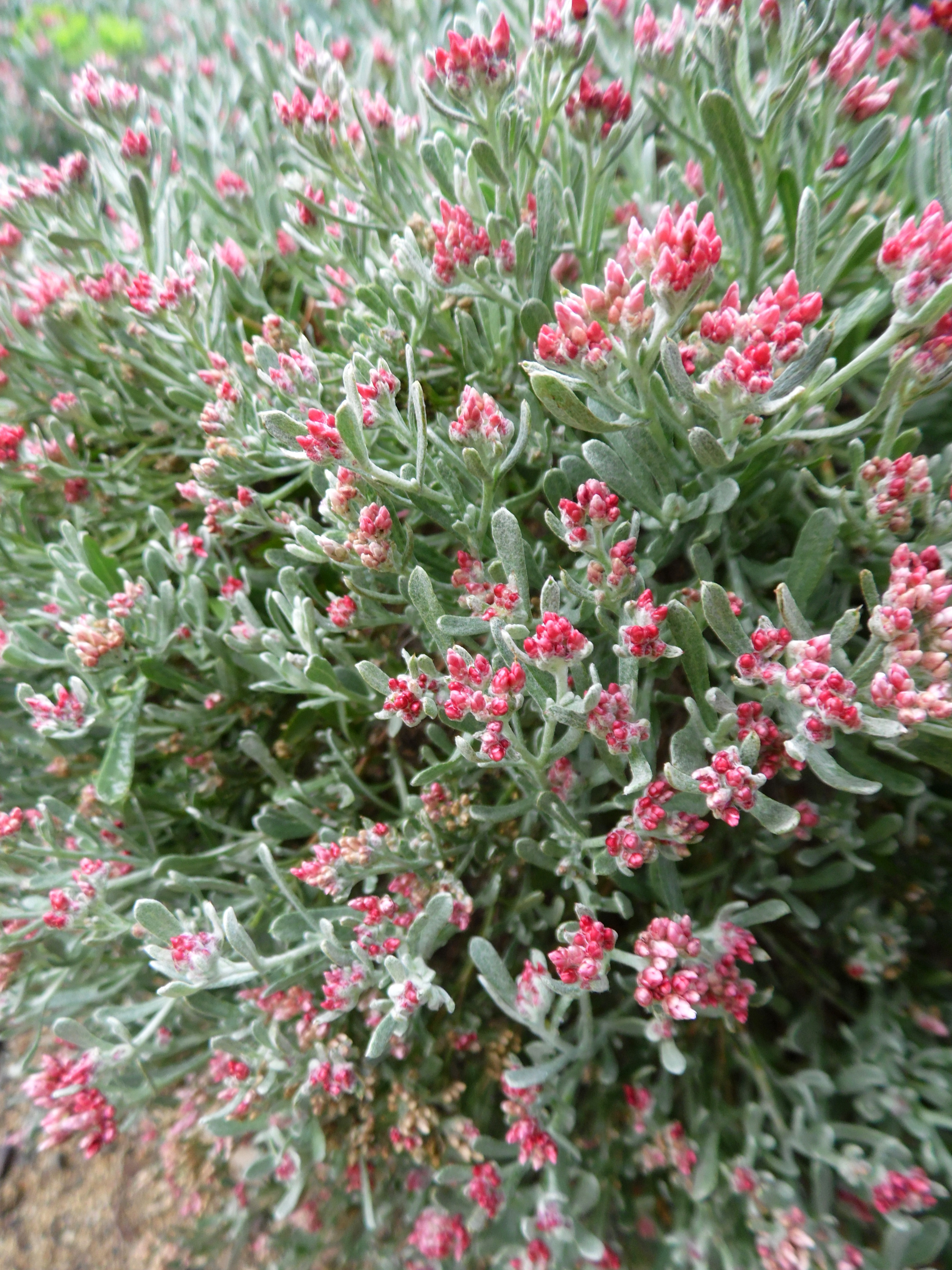 Helichrysum monogynum in Jardín Botánico Canario Viera y Clavijo